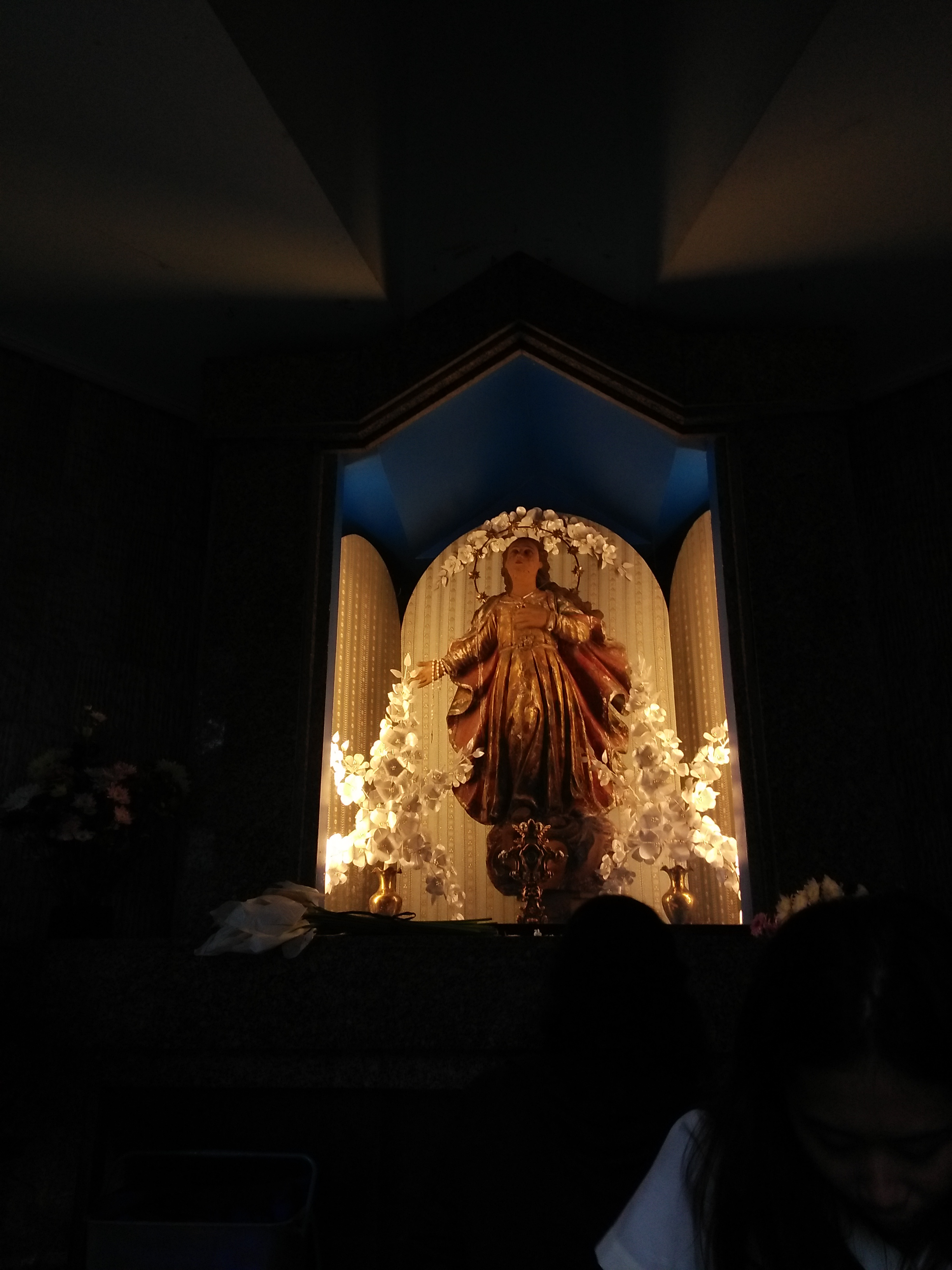 The original wooden image of Nuestra Señora de la Asuncion is a de tallado image where the Virgin is standing on a cloud with cherubs, has loose yet wavy hair, her right hand is outstreched and her left was on her chest looking upwards.